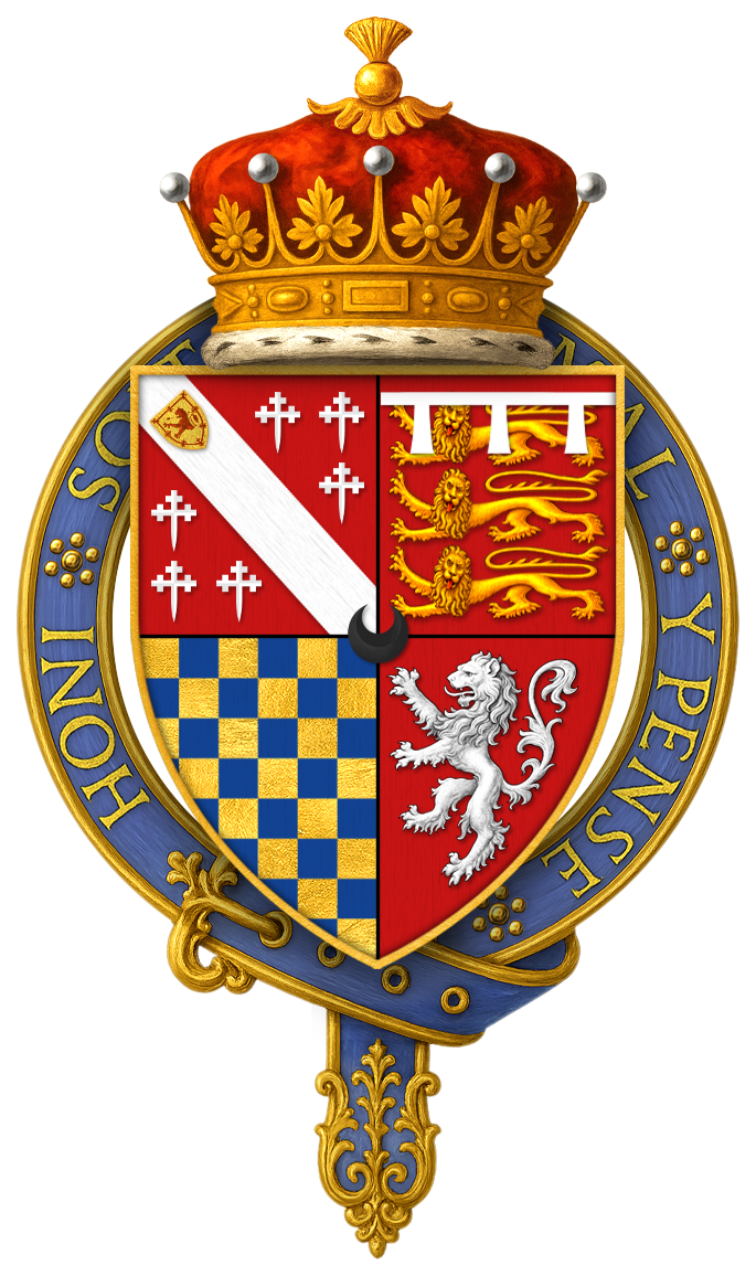 Coat of arms of Henry Howard, 12th Earl of Suffolk, KG, PC